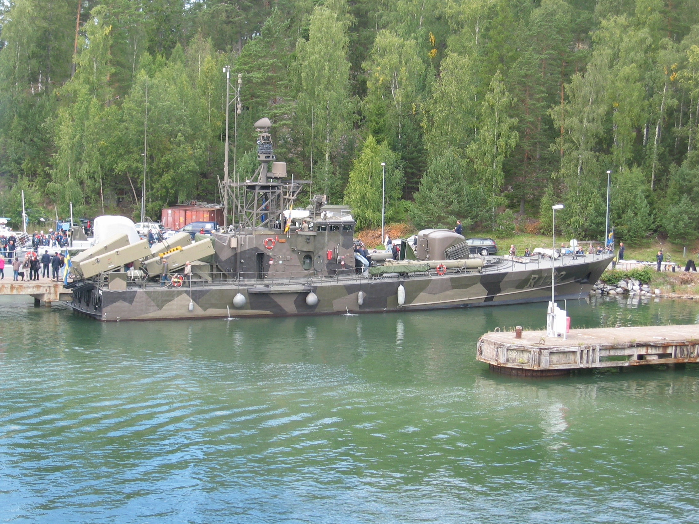 HMS Ystad R142